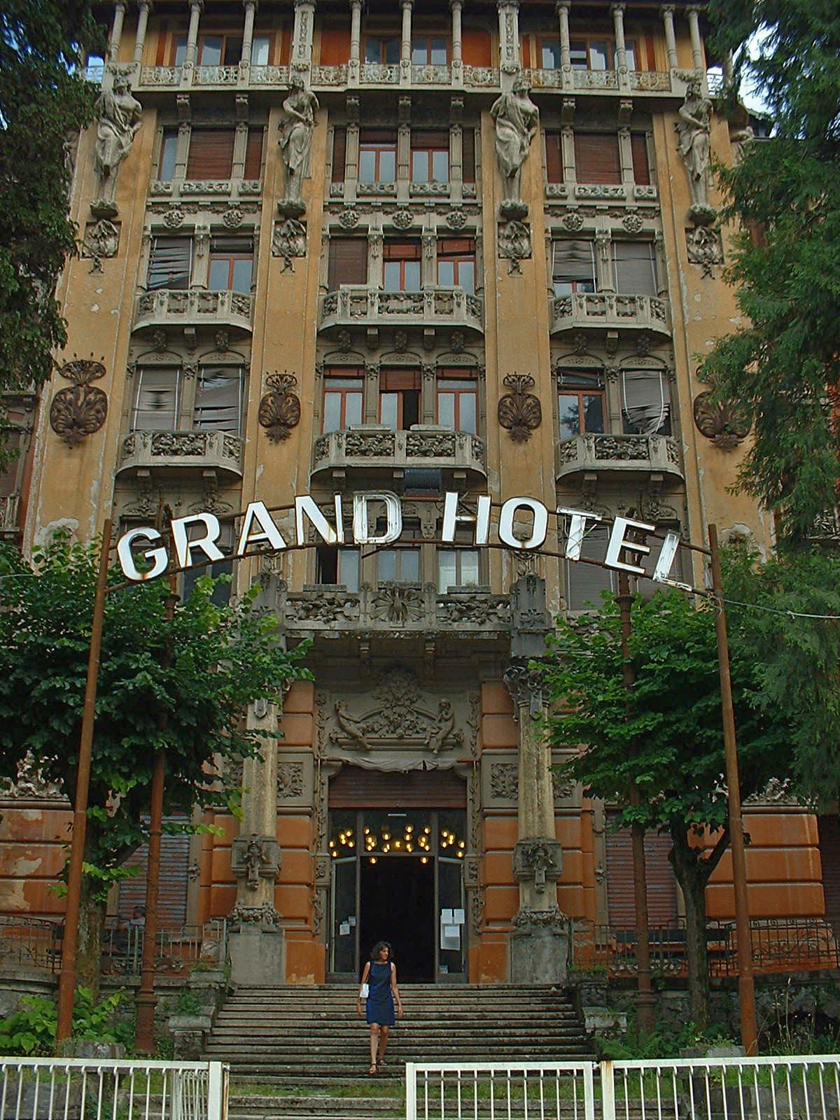 Happened to be open for an auction, normally it's closed...sadly so!